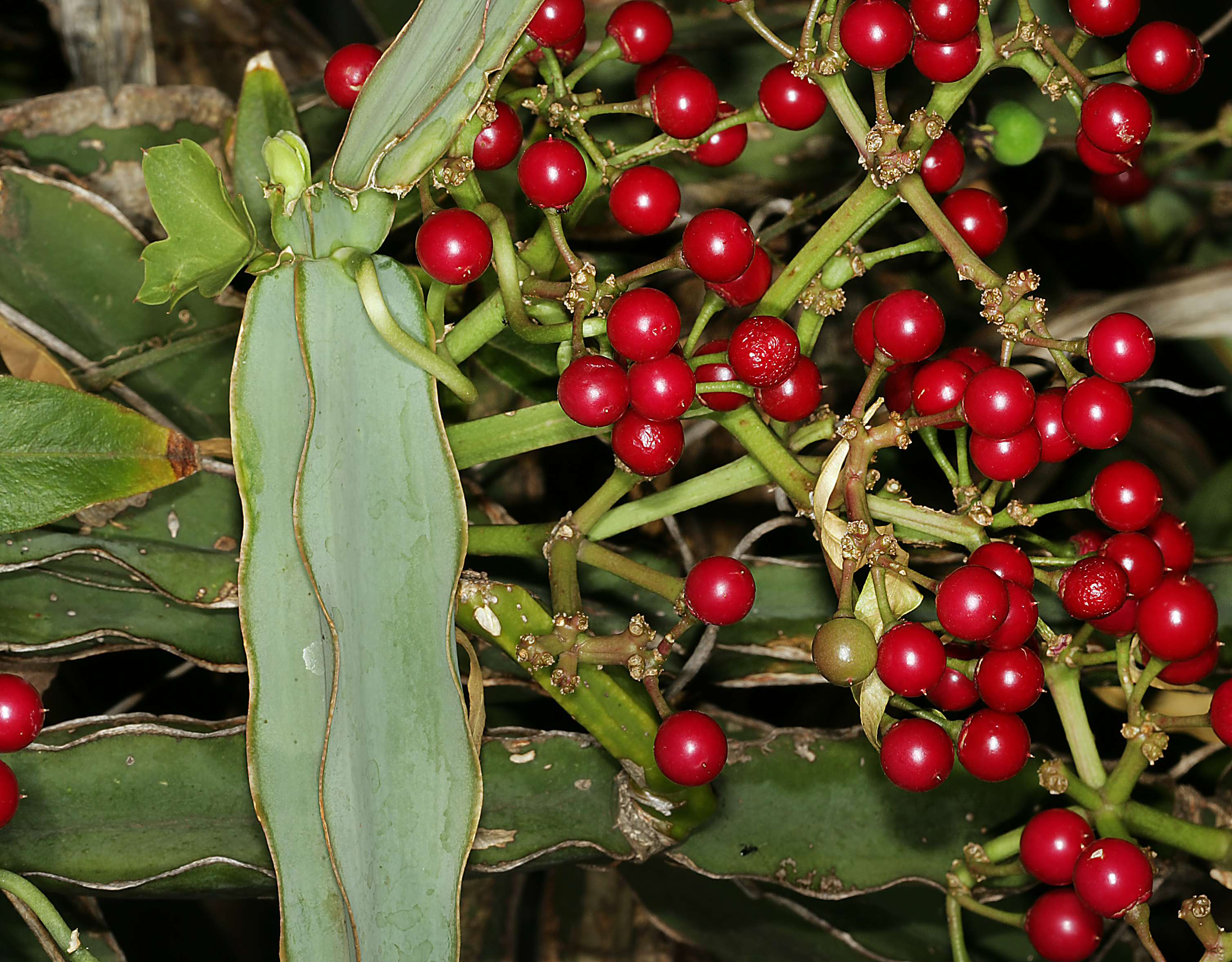 Cissus quadrangularis, Vitaceae: berries